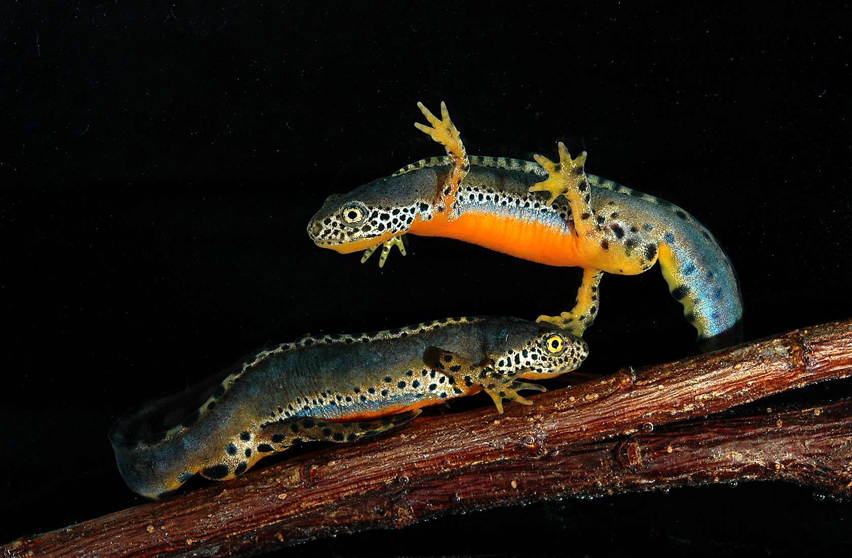 Ichthyosaura alpestris, Alpine Newt –formerly Triturus alpestris